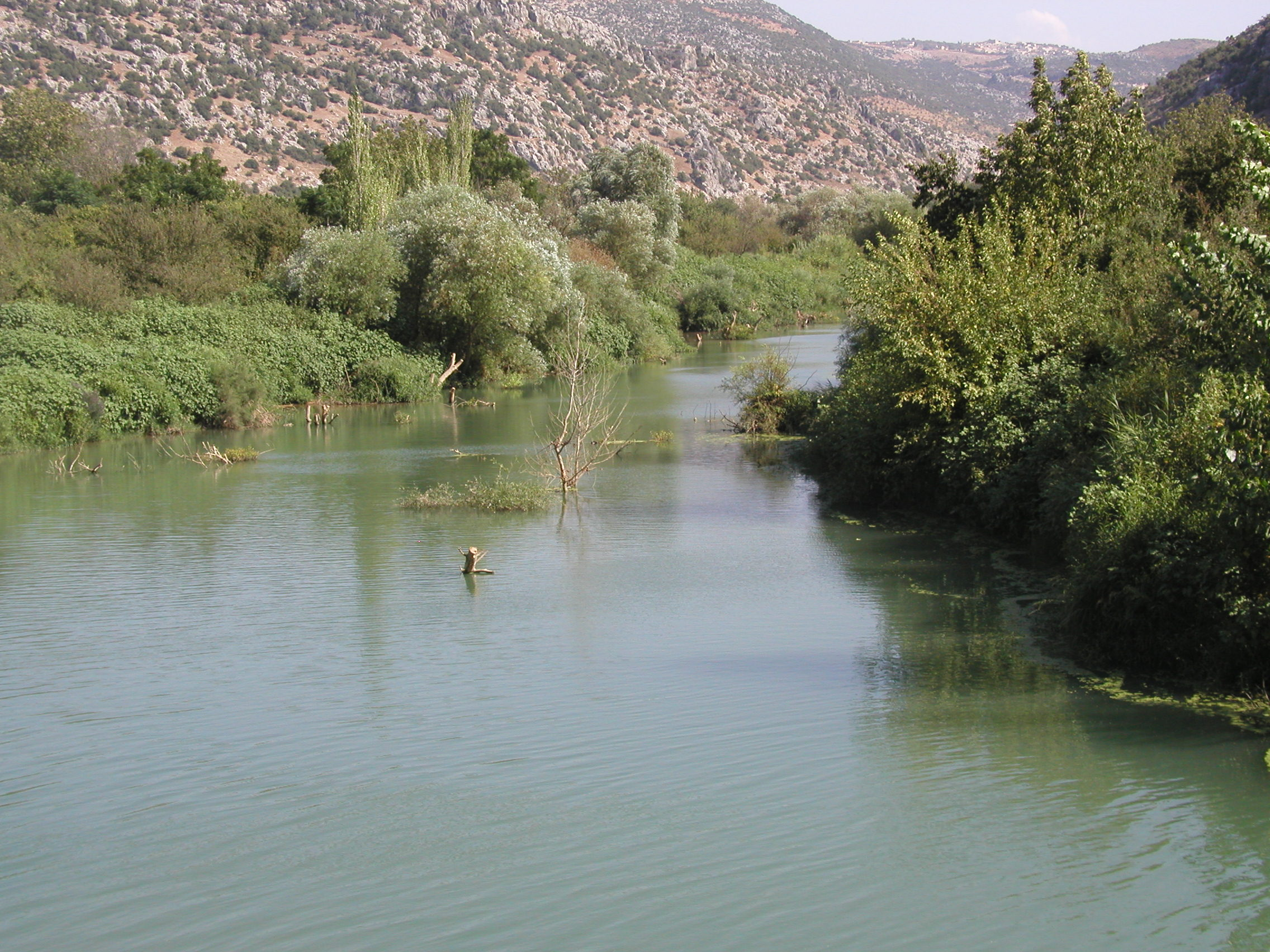 Orontes river near Darkoush, Idlib Governorate, Syria.